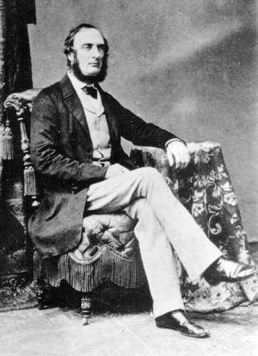 John Palliser (date unknown)